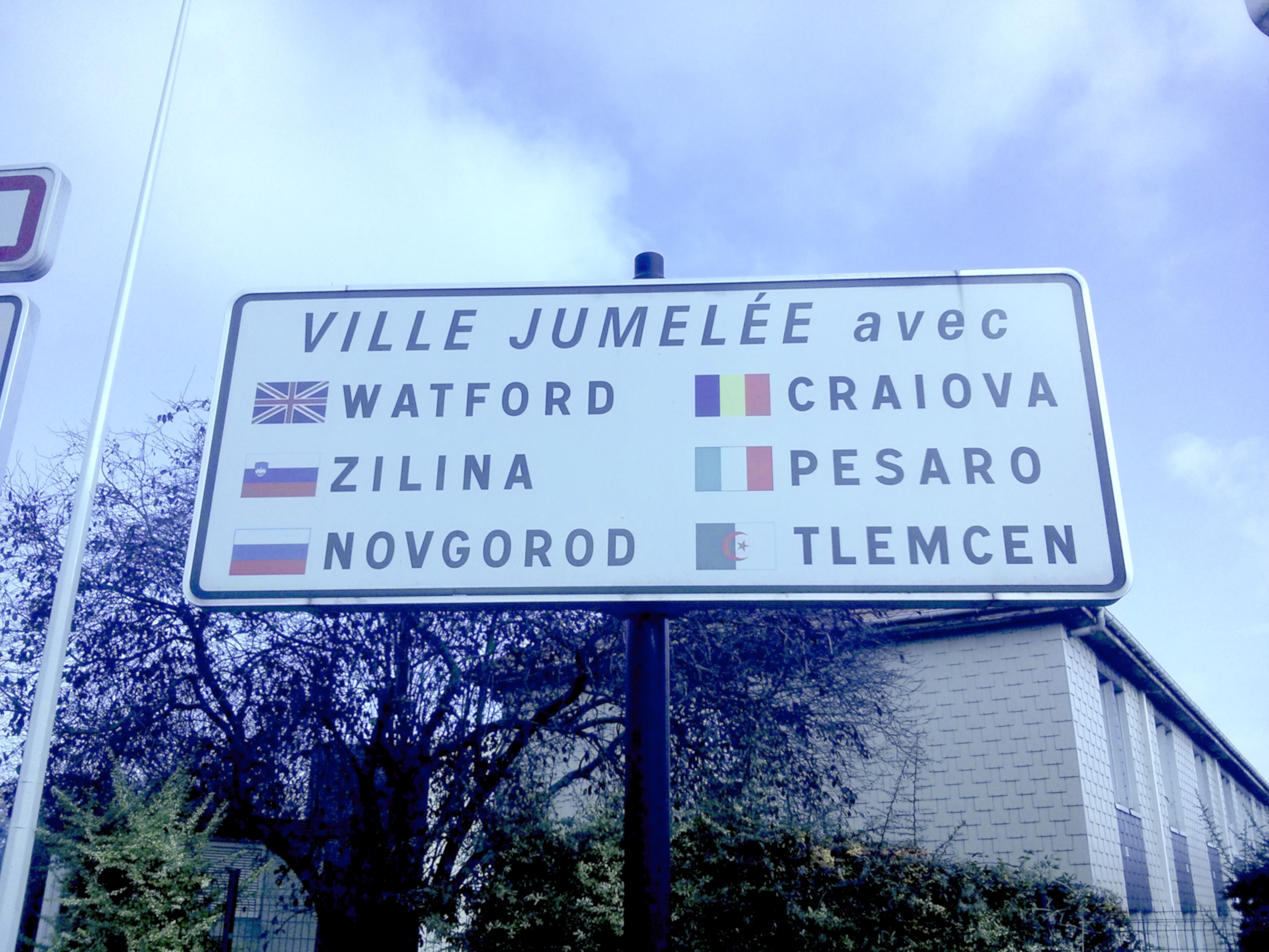 Nanterre, a french city, twin towns sign.